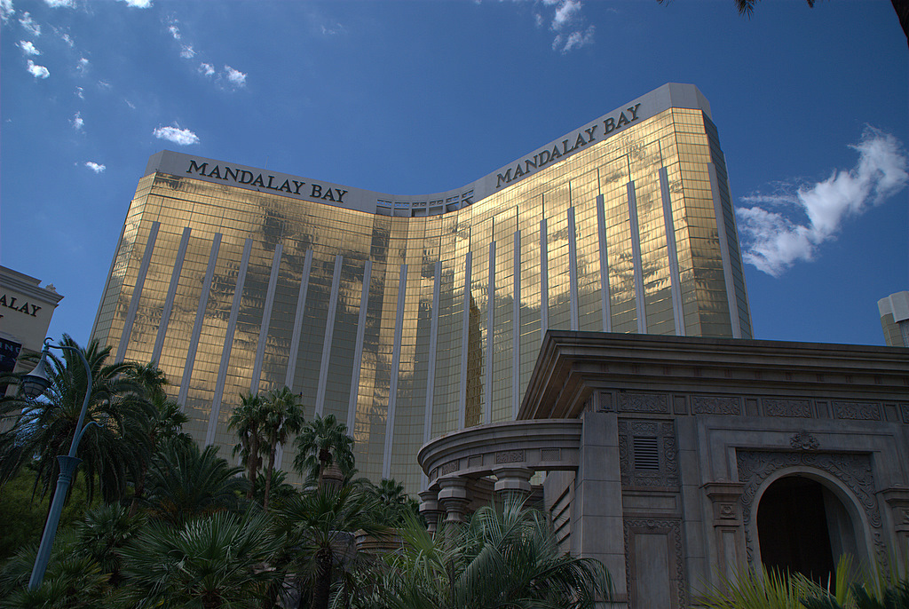 Mandalay Bay in Las Vegas, Nevada